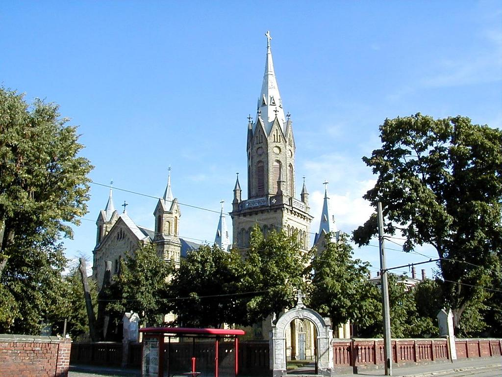 Liepāja Saint Joseph Roman Catholic Cathedral